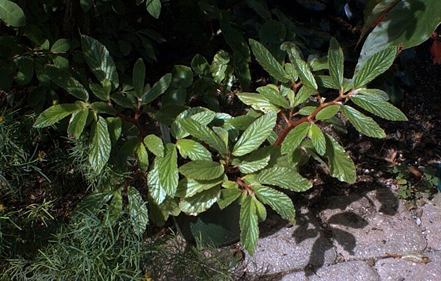 Begonia ulmifolia (syn. Begonia jairii ). A shrub-like species from Brazil. My own photo of my own plant taken 9-2006.